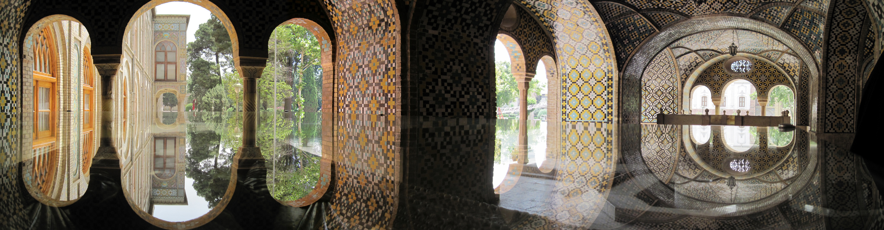 Khalvat karim khani - Golestan Palace - Tehran - Iran - 2009